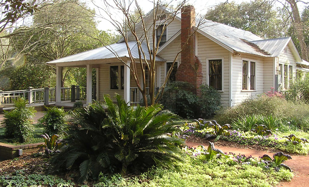 Bland Cottage at Georgia Southern Botanical Garden a part of Georgia Southern University in Statesboro, Georgia. Photograph taken by Richard Chambers on March 11, 2007 while sauntering about the grounds looking for appropriate photos to put into Wikipedia for the Georgia Southern Botanical Garden topic.